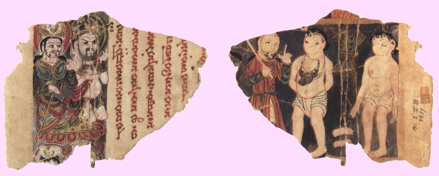 Fragment of Uyghur Manichaean service book illuminated with Two Plaintiffs from Judgment and Rebirth of Laity, leaf from a Manichaean book, Khocho, Temple α., ca. 8th-9th. Manuscript painting, 8.2 x 11.0 cm. MIK III 4959.